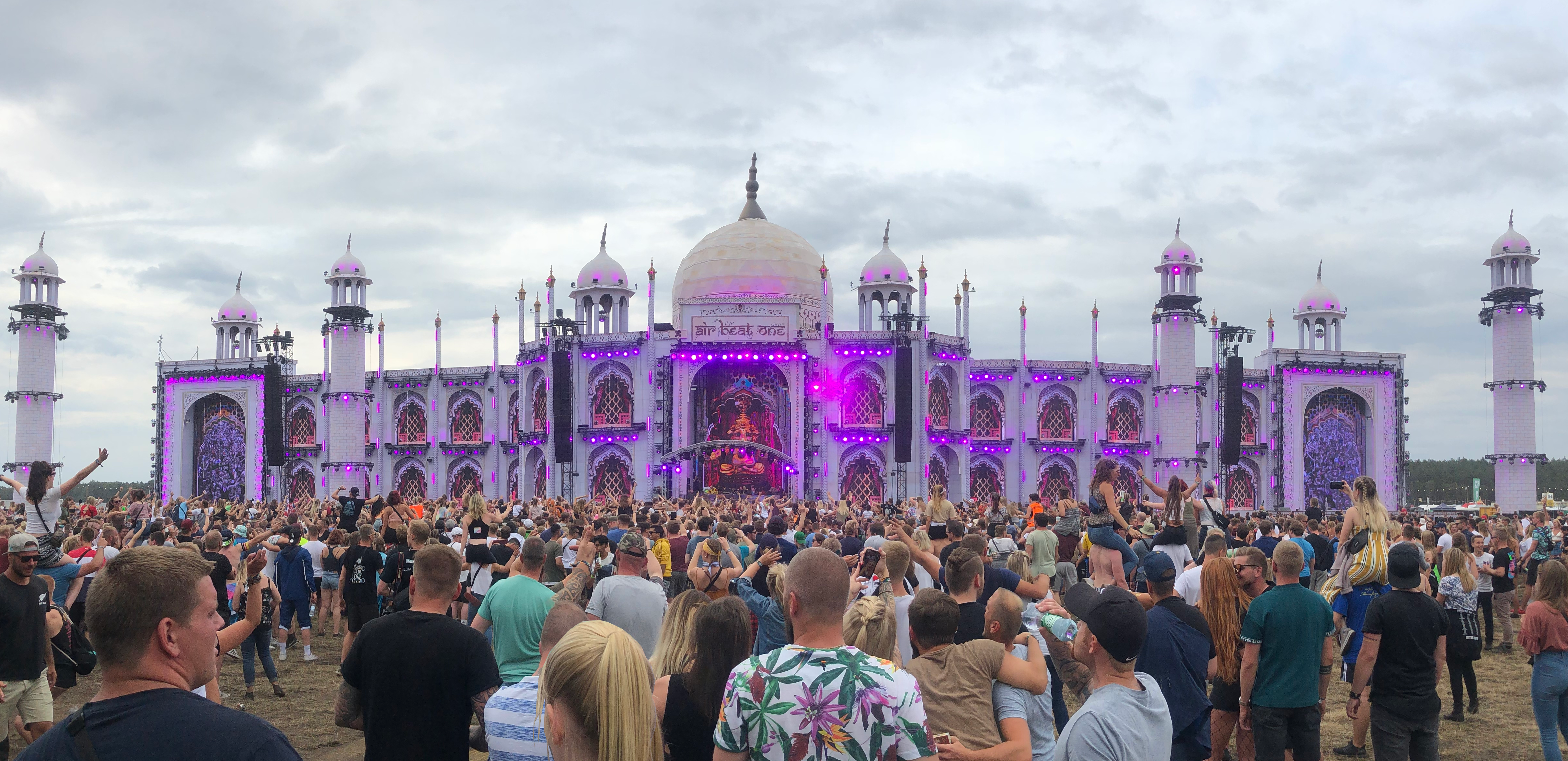 Mainstage of Airbeat One Festival 2019 in Neustadt-Glewe, Germany.